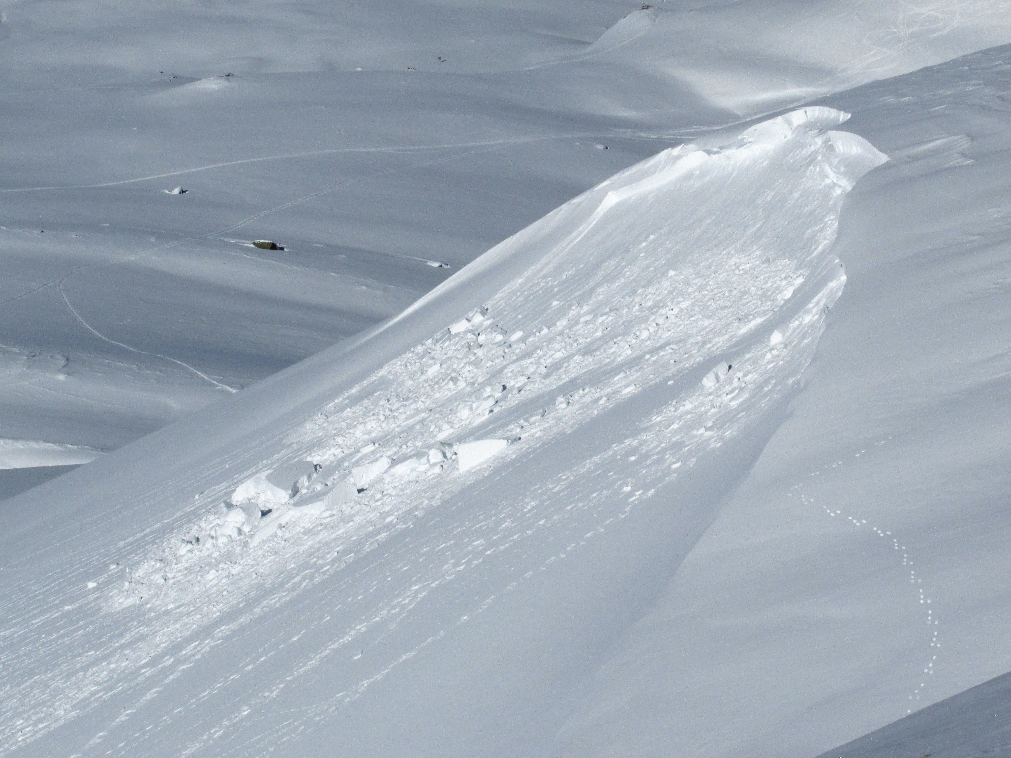 Small self-triggered slab avalanche near the Chamanna digl Kesch